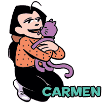 Carmen.png